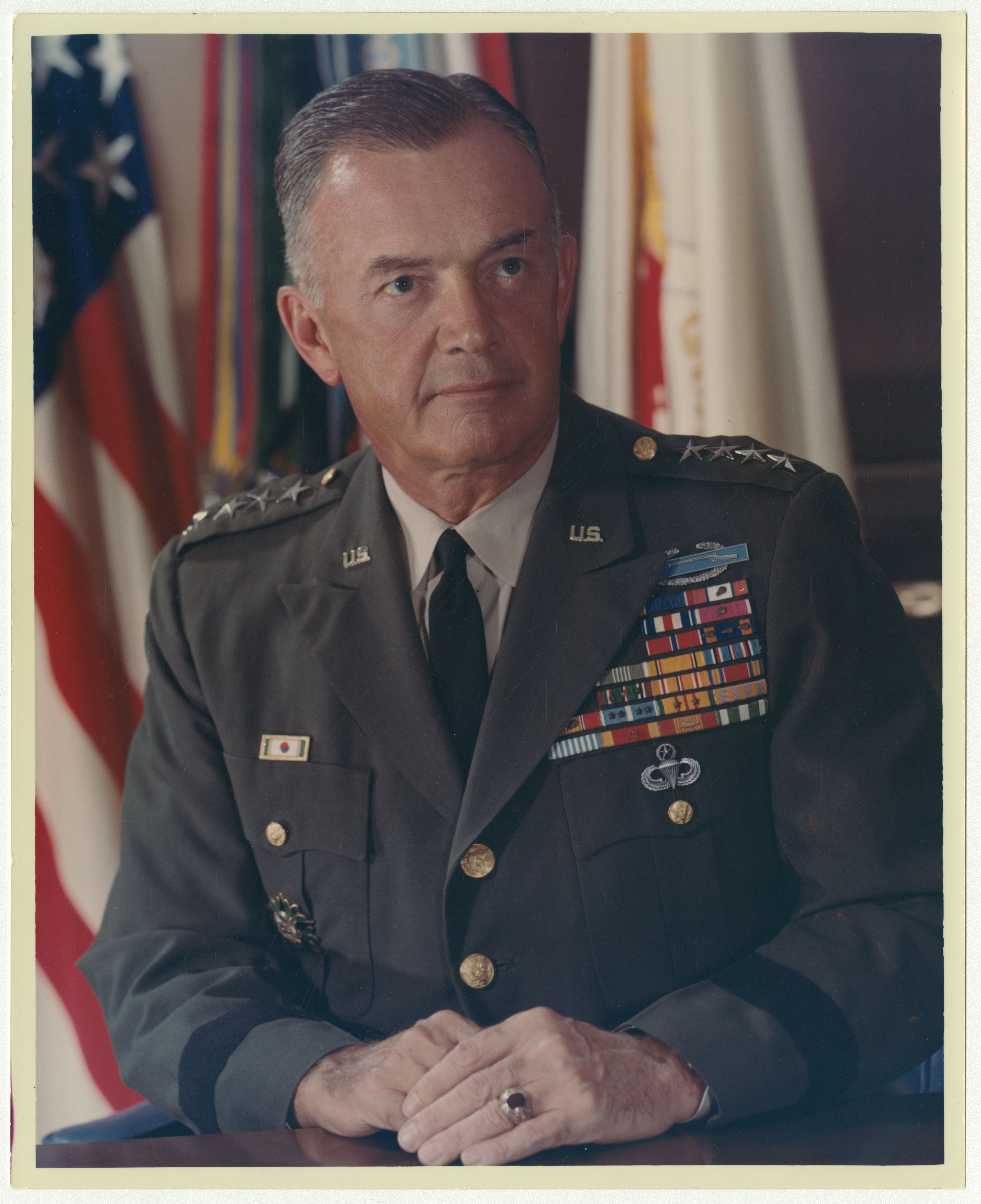 General John L. Throckmorton.